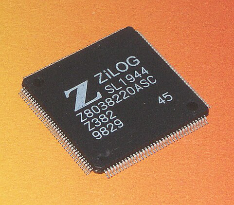 Zilog Z382